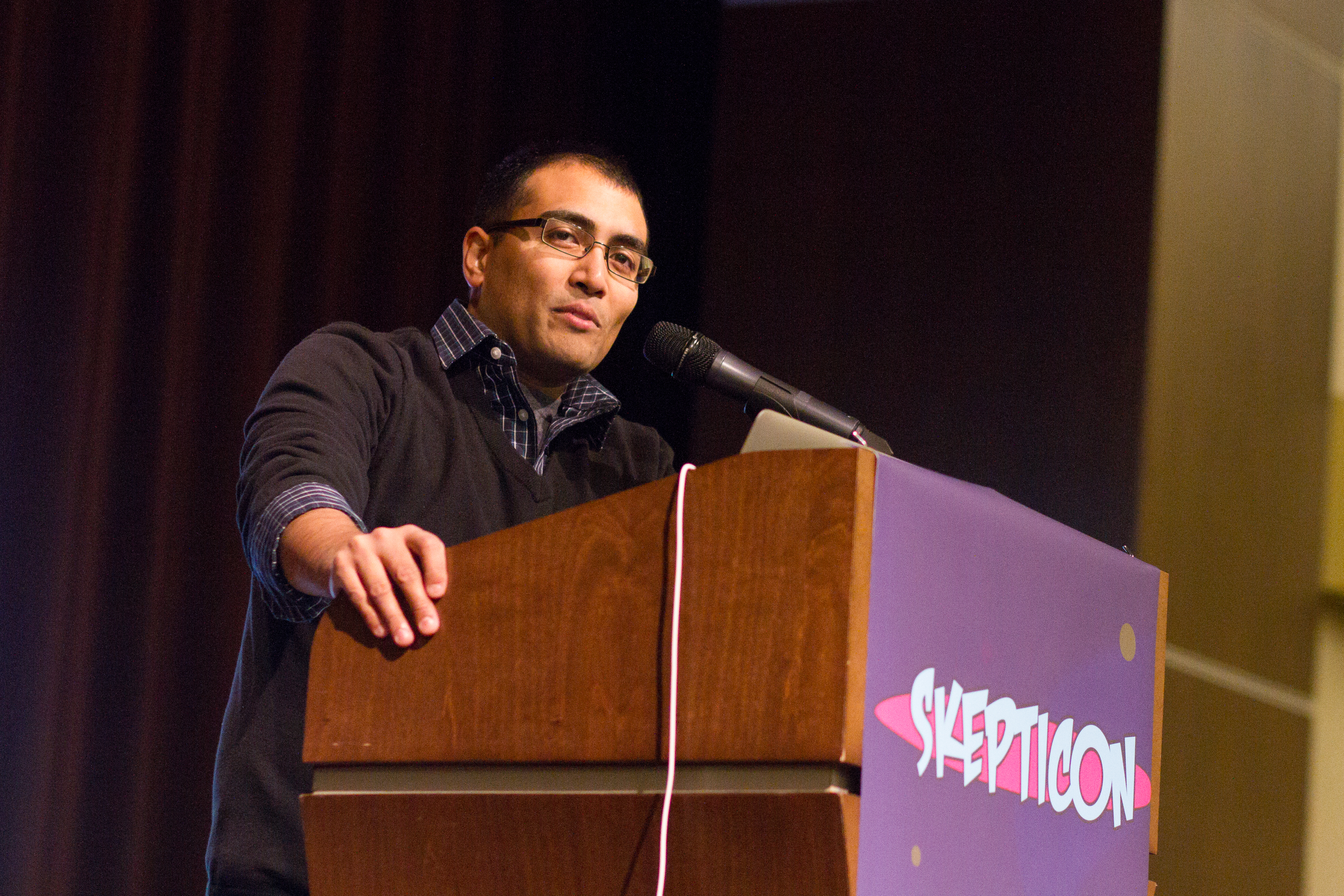 Hemant Mehta speaking about his topic, "Skeptics can be gullible, too!" at Skepticon 7